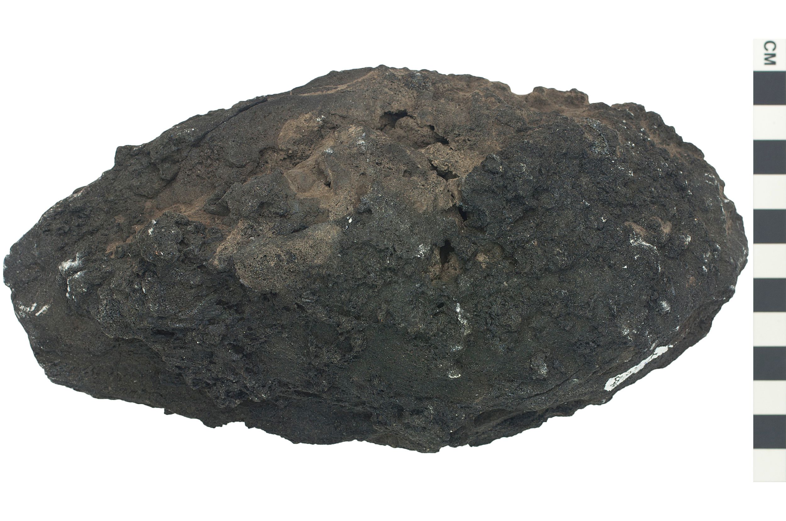 Basalt volcanic bomb from Eldfell volcano on Heimaey in Iceland. (Smithsonian Institution rock sample NMNH-EO 045268).